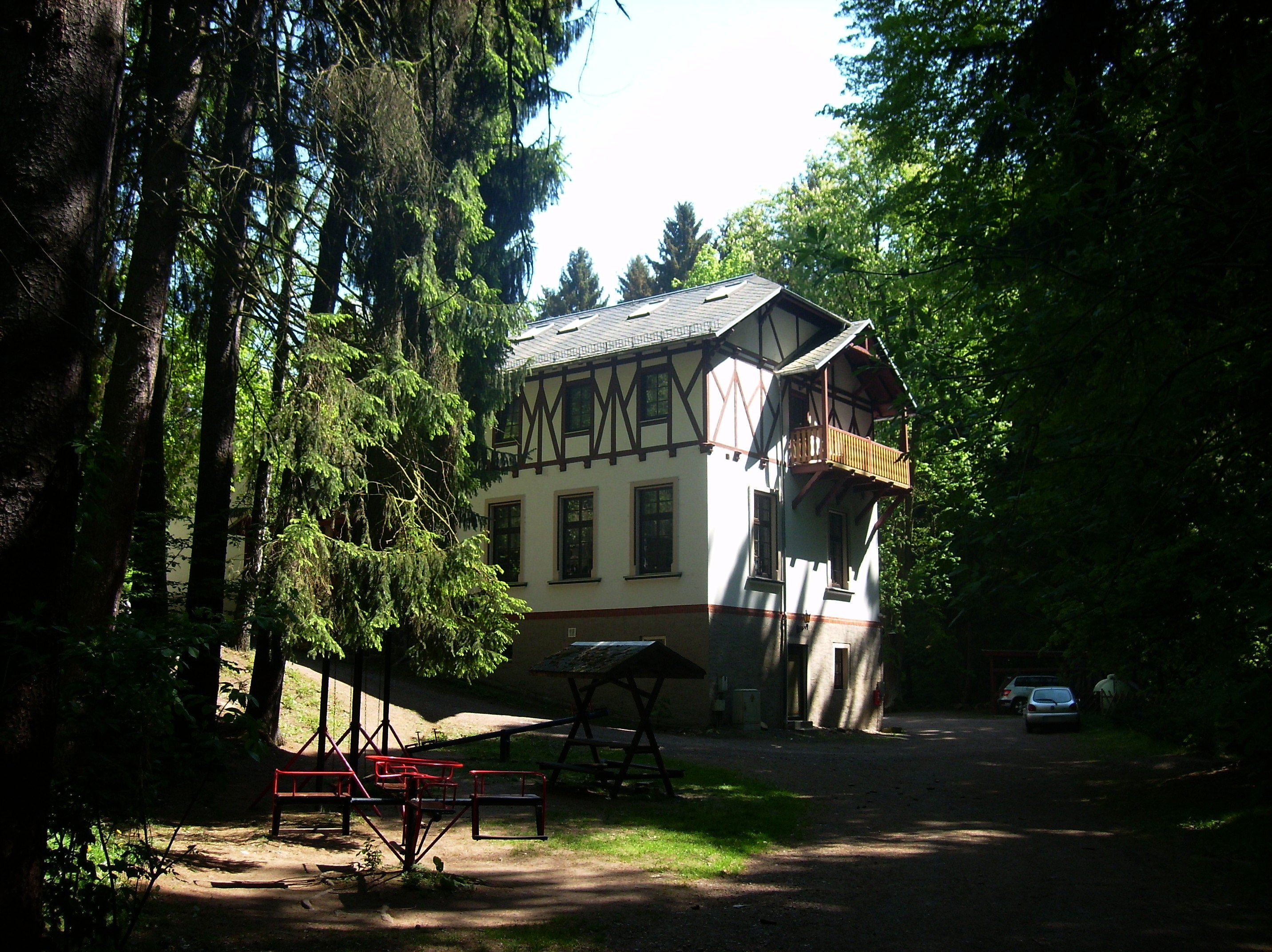 At Margarethe's Mill in the Zweinig Valley near Rosswein (Mittelsachsen district, Saxony)